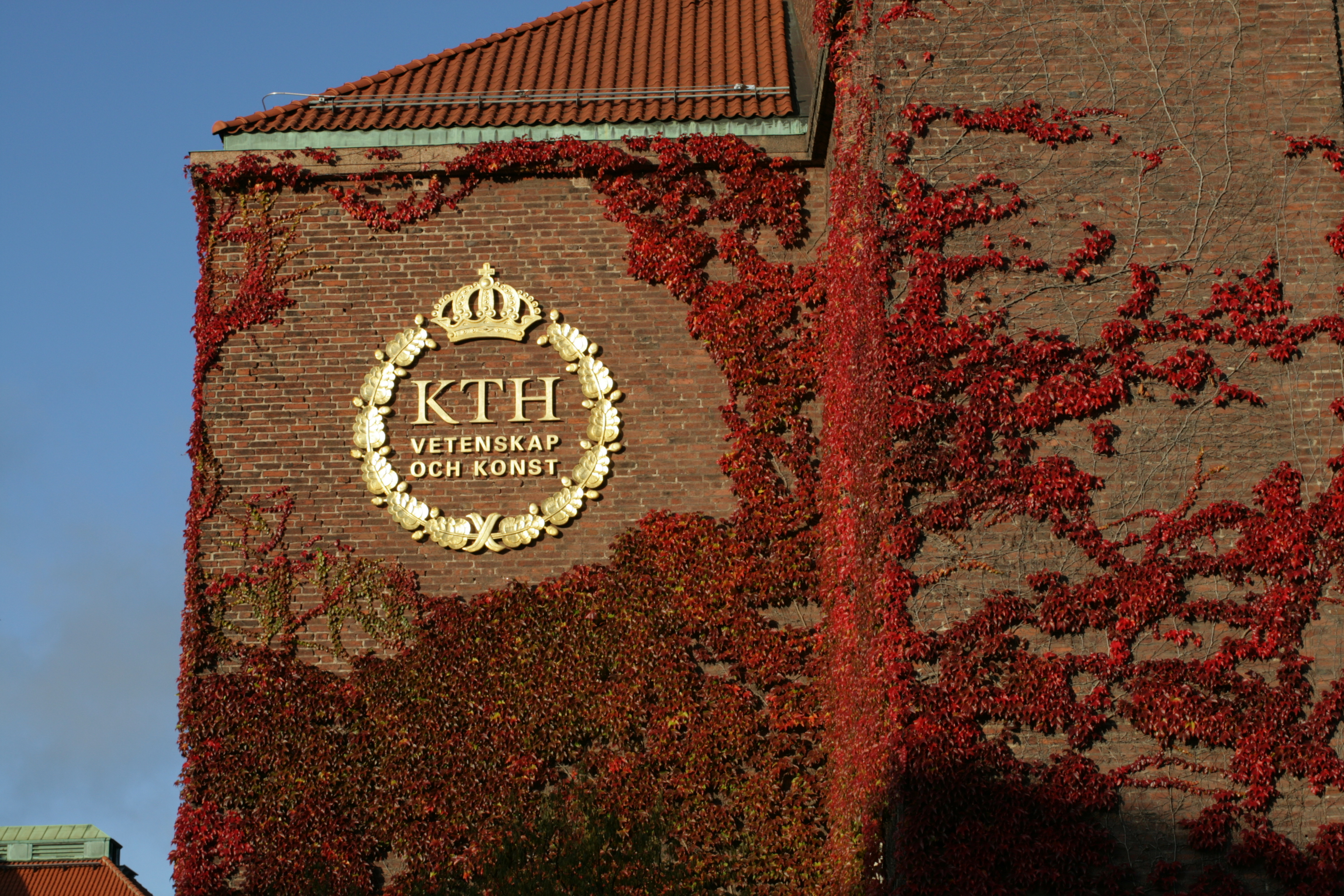 Royal Institute of Technology building